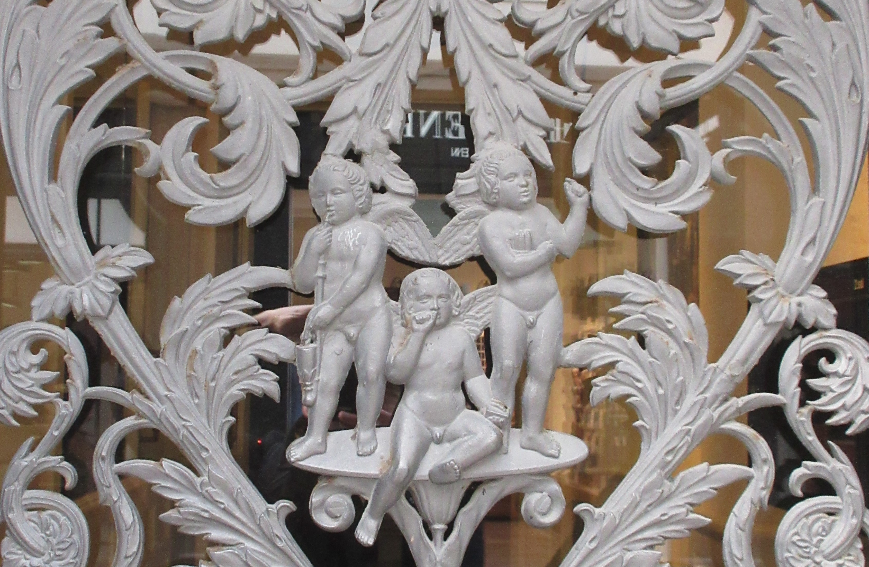 Østergade 6 - door detail, ib Copenhagen, Denmark